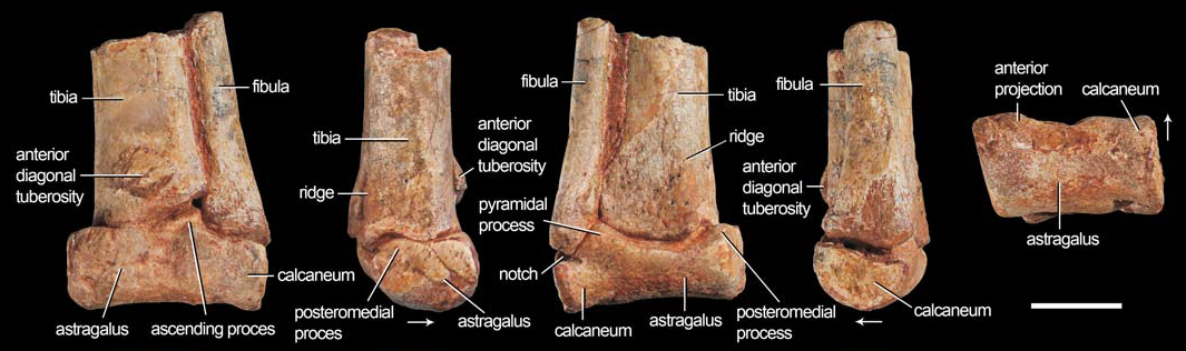 Ankle of Lepidus praecisio gen. et sp. nov., Otis Chalk area, Dockum Group, Late Triassic (TMM 41936-1.3).